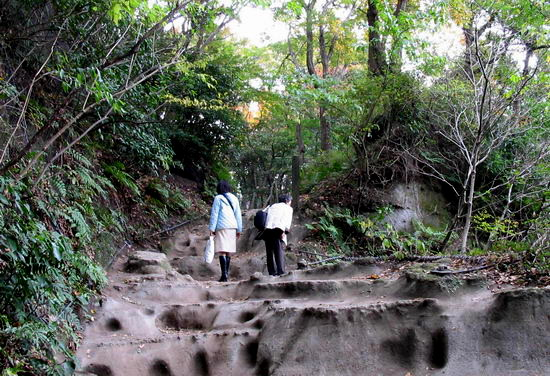 The Kewaizaka Pass of Kamakura's Seven Entrances